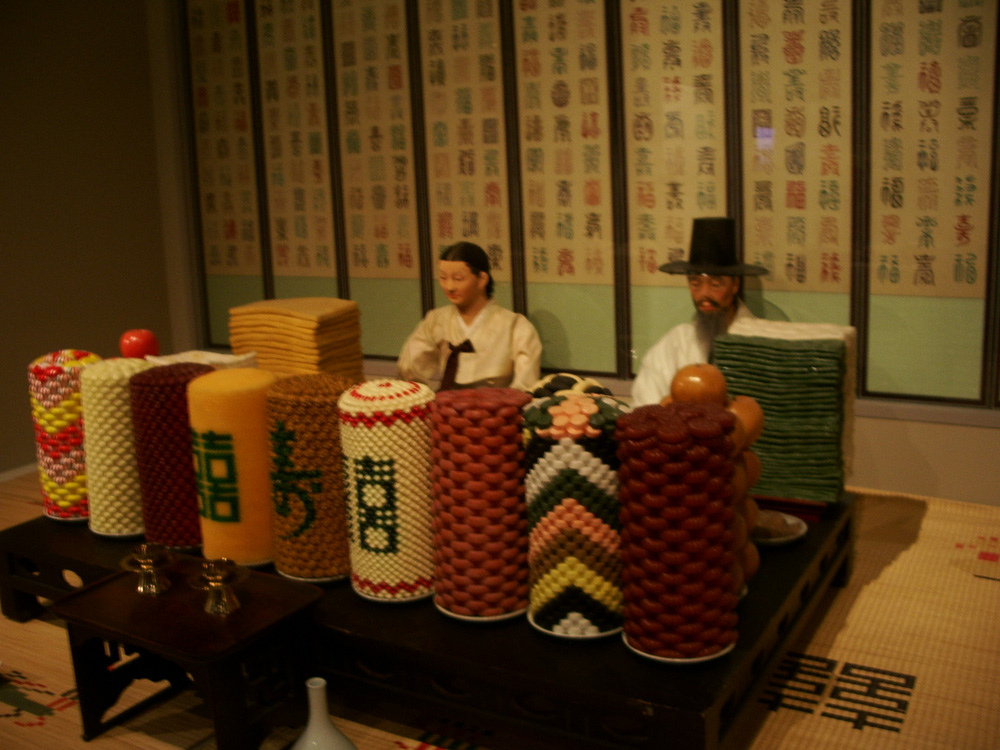 Gobaesang, table for hwangap, 60th birthday in Korea